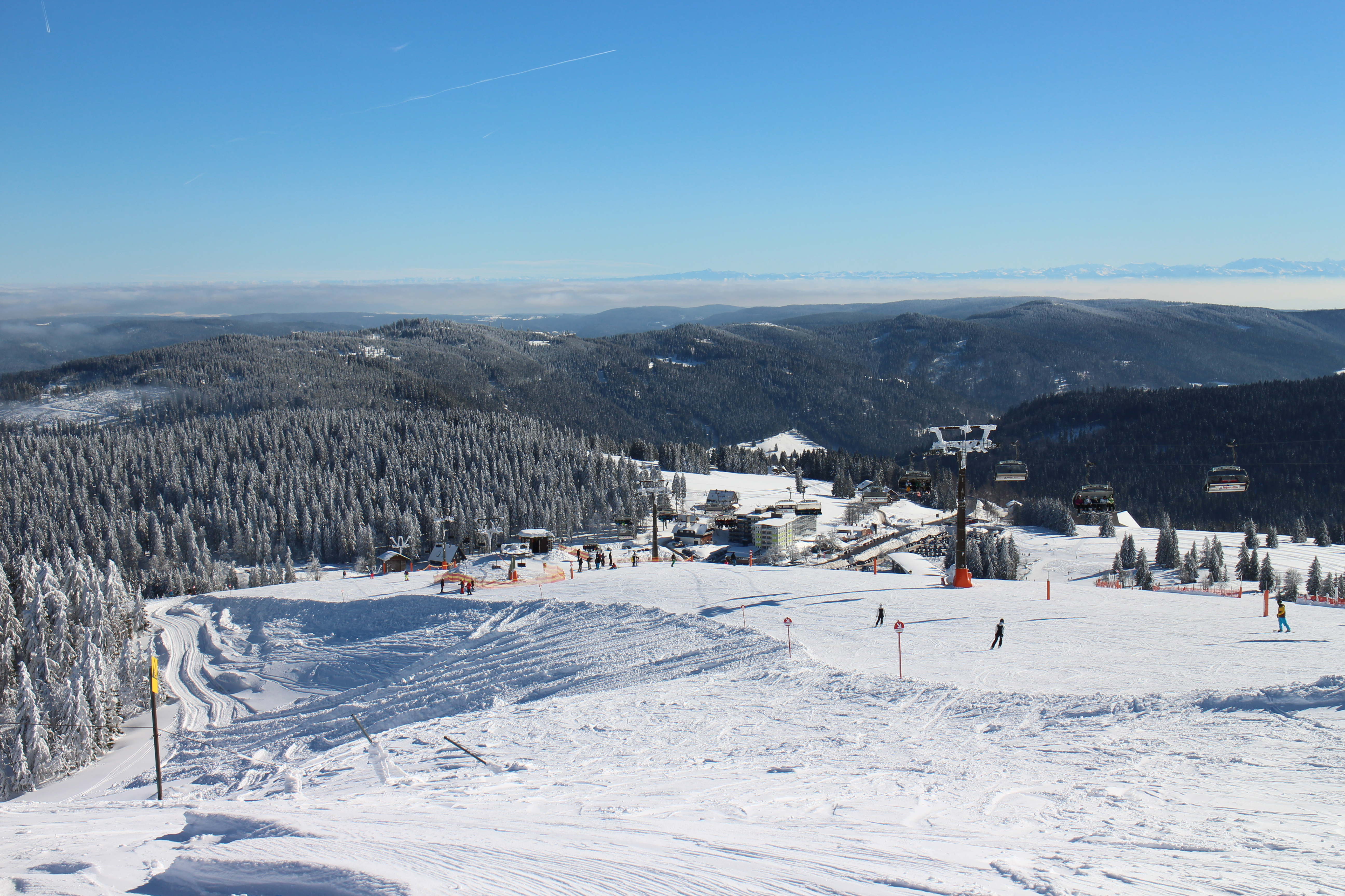 Germany / Black Forest: cable car with 6 sits; view peak of Seebuck to Feldberghof and alps